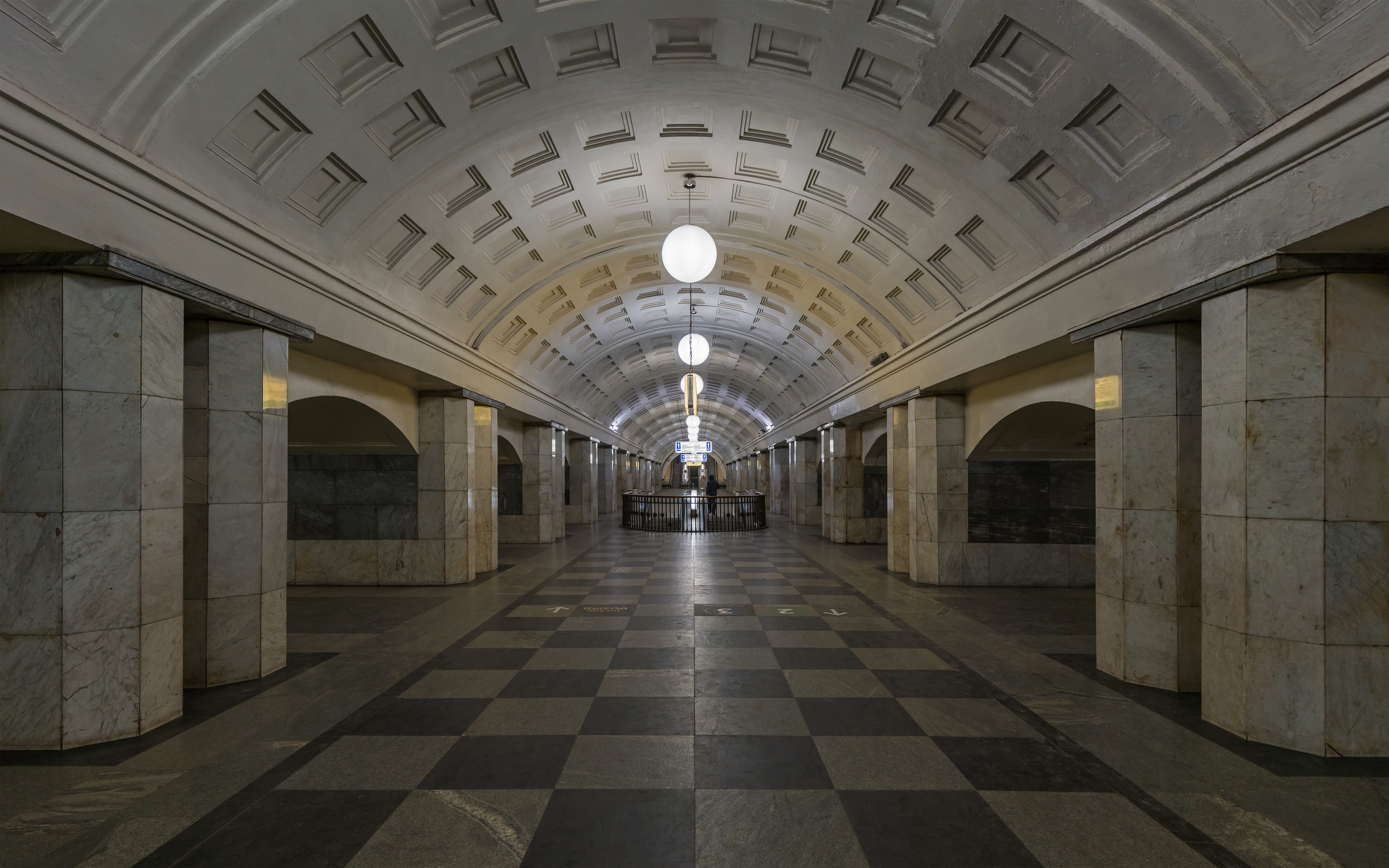 Okhotny Ryad metro station in Moscow